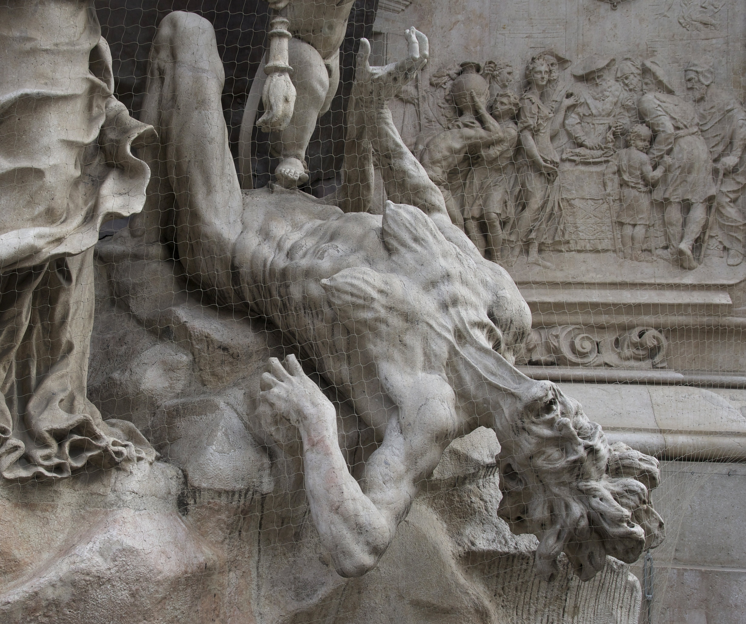 Plague is defeated, detail of the "Column of the Plague" (Pestsäule), Graben, Vienna, Austria